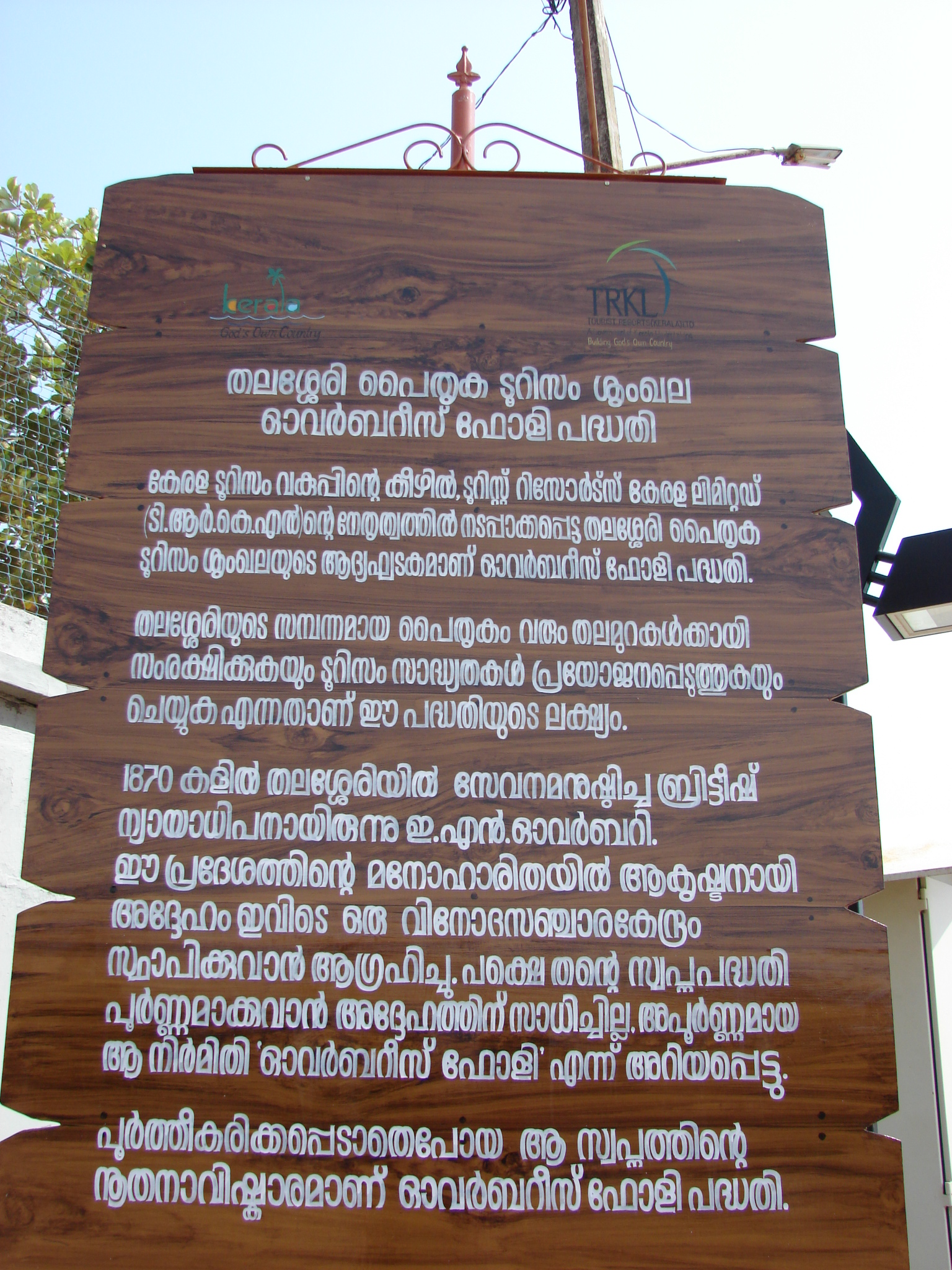 Description